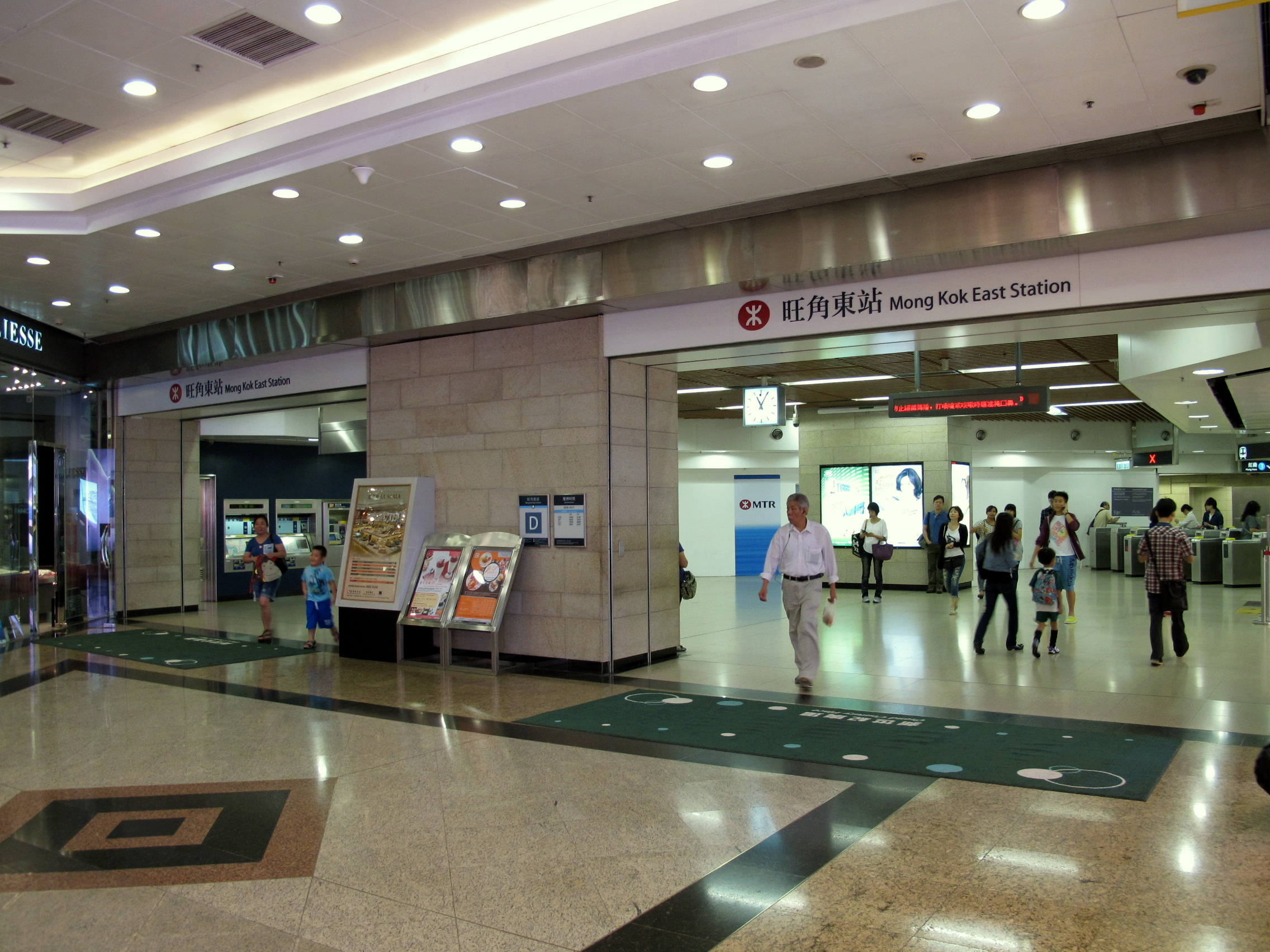 Mong Kok East Exit D 旺角東站